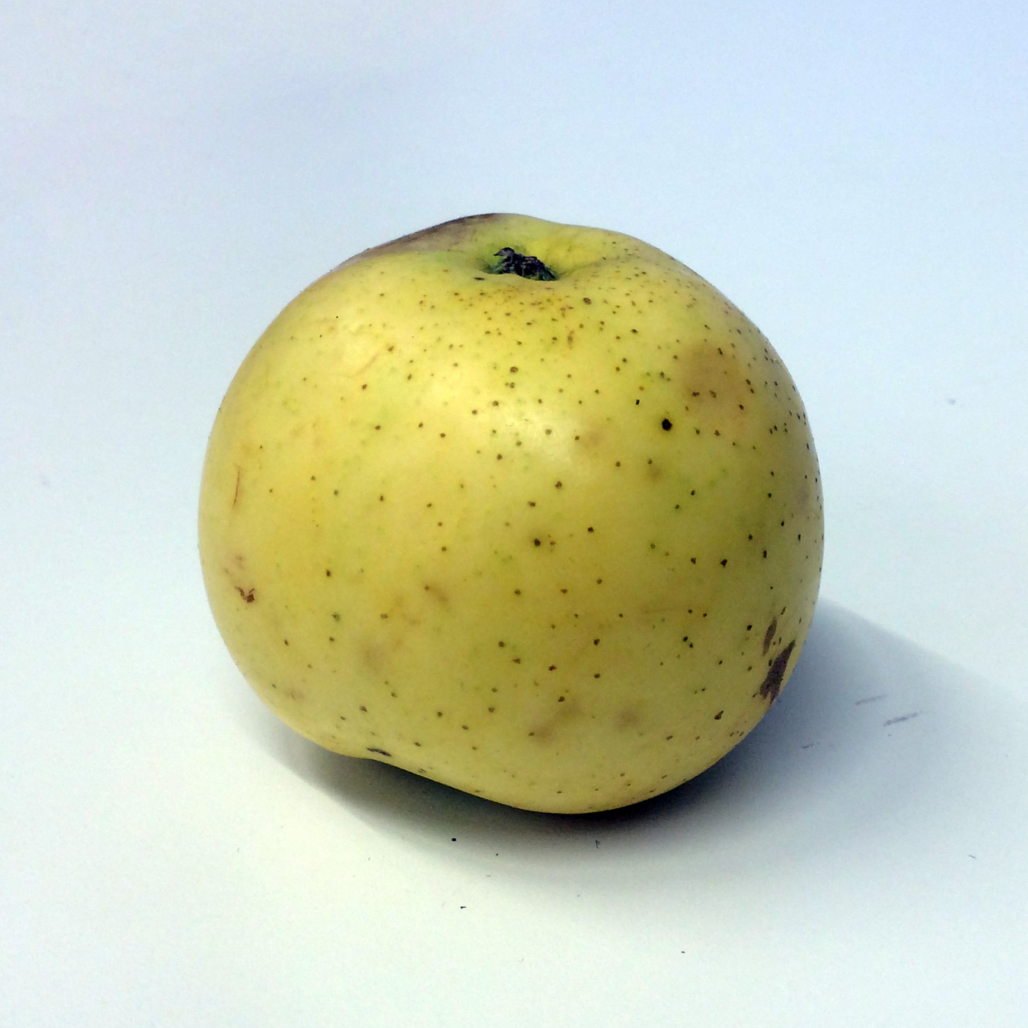 Apple of the cultivar Risäter, photographed in conjunction with the Apple Festival at Nordiska museet, Stockholm, Sweden in September 2014.